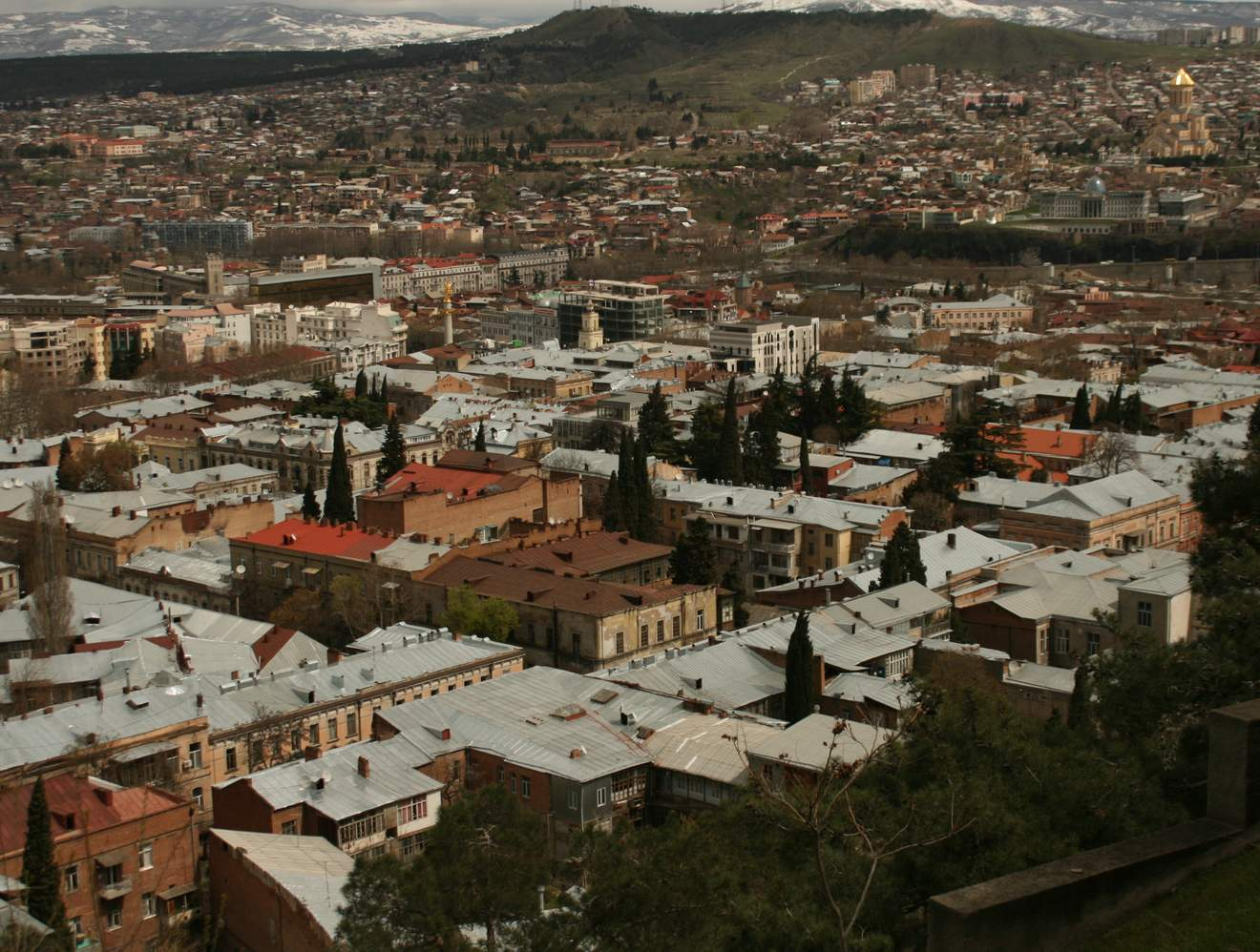 Sololaki neighborhood panorama. Tbilisi